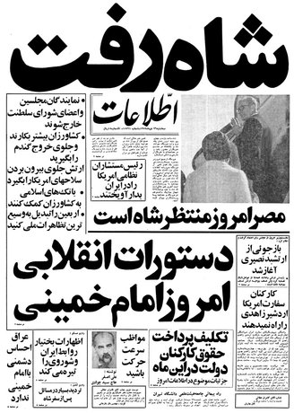 The Shah is gone.